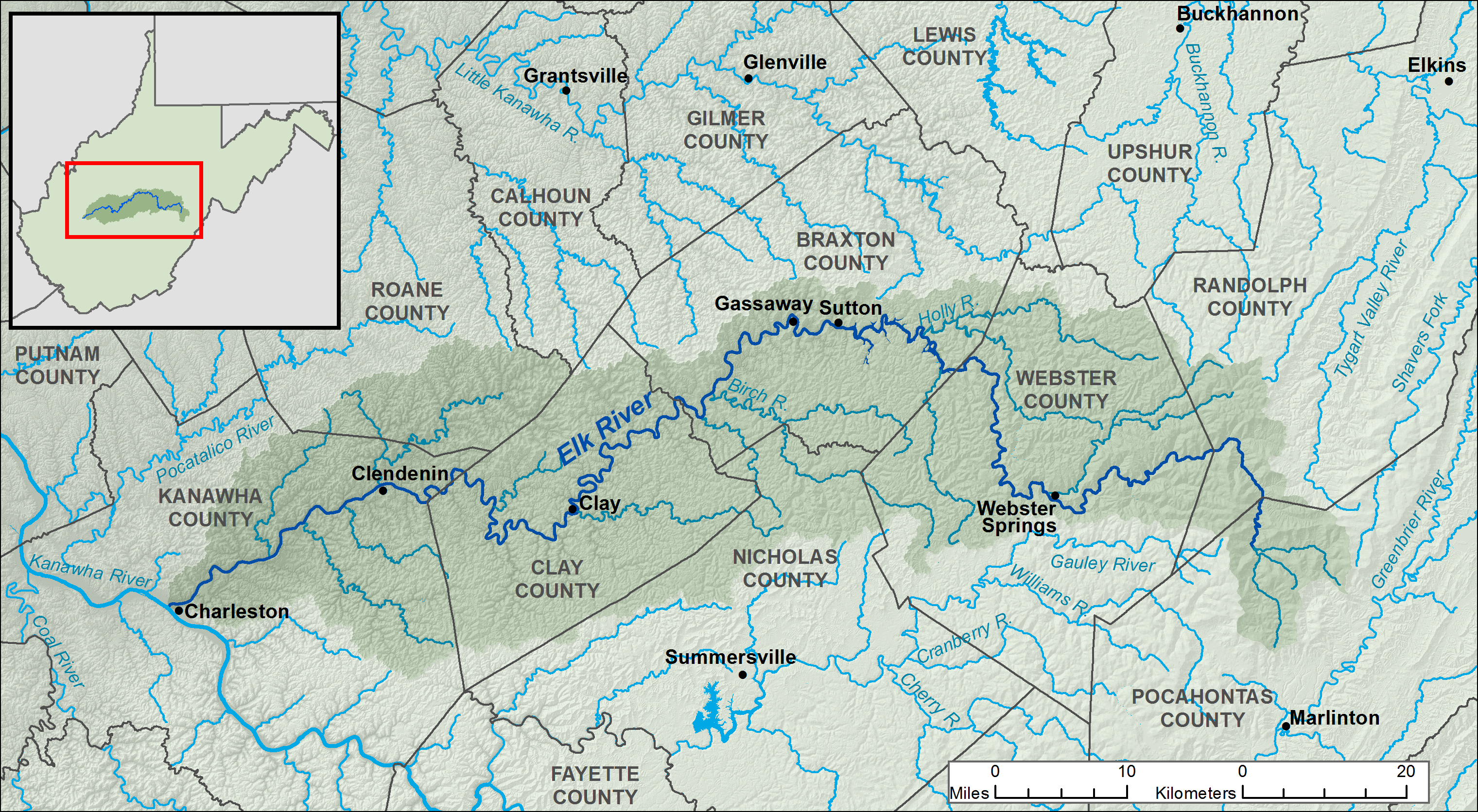 A map of the Elk River and its watershed in central West Virginia. USGS HUC-8 code 05050007.